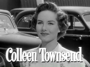 Cropped screenshot of Colleen Townsend from the trailer for the film When Willie Comes Marching Home